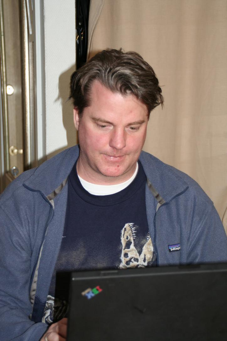 Jørn Hurum front of his trusty Thinkpad